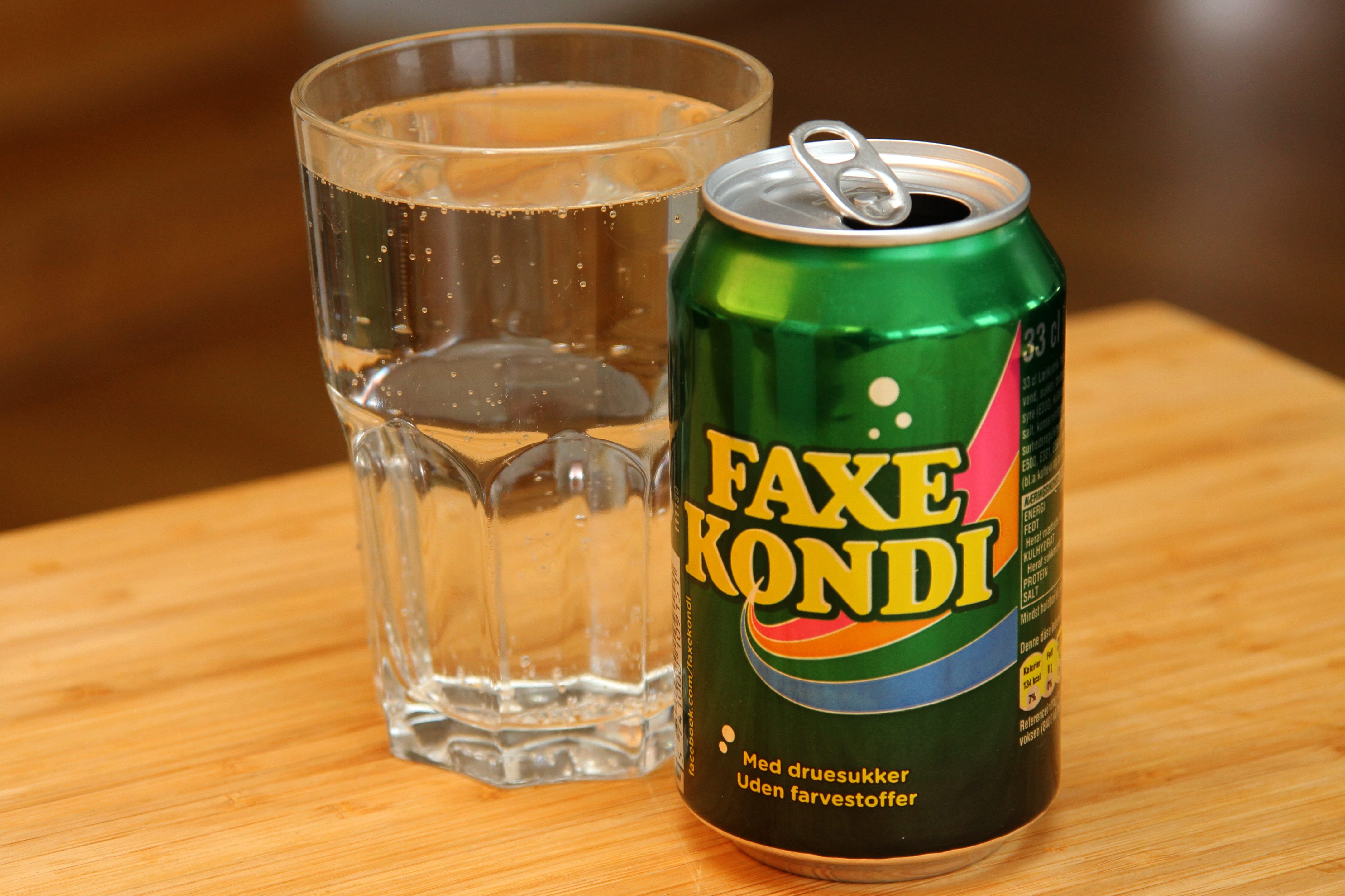 Faxe Kondi, Danish soda.